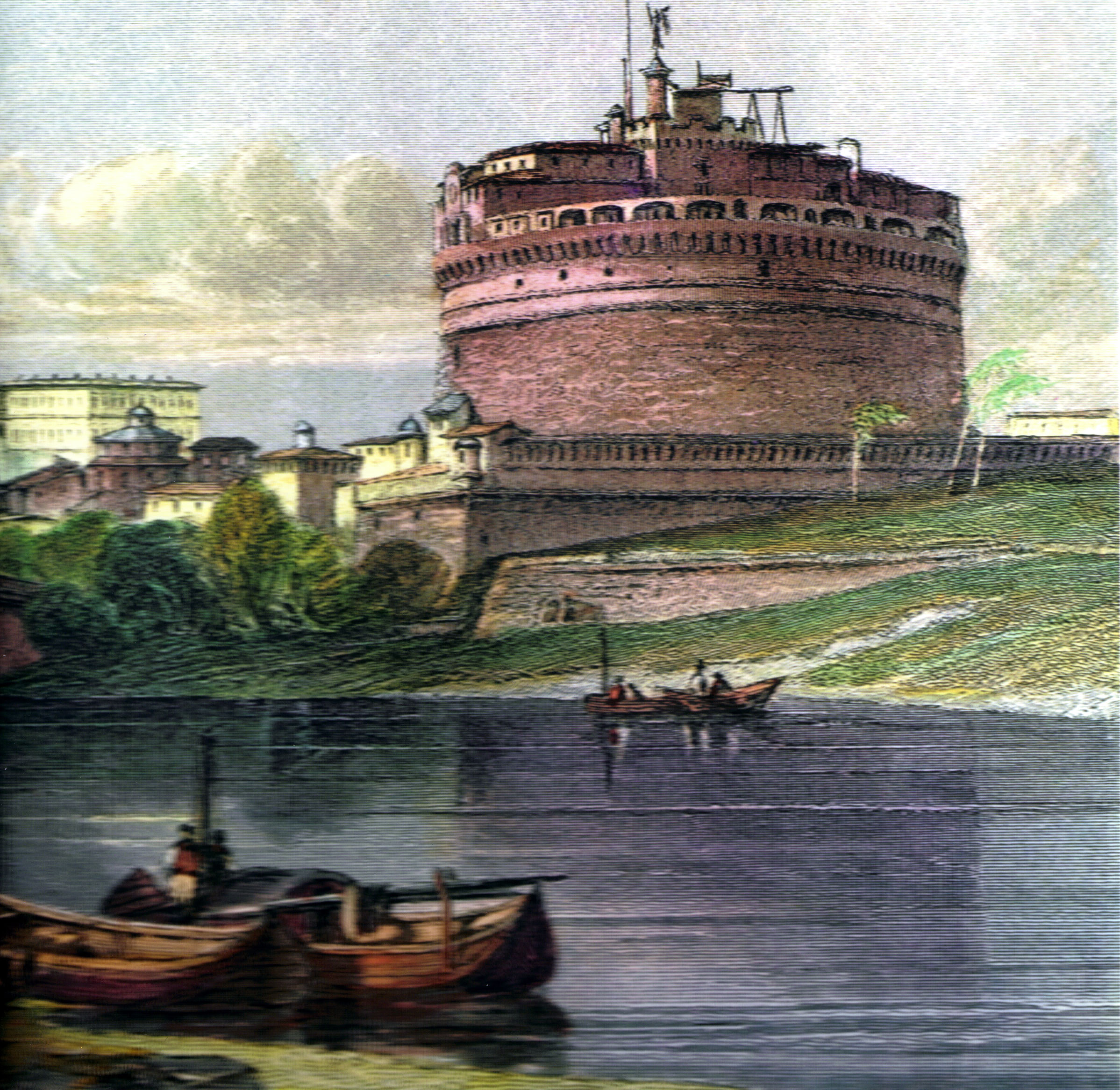 Castel Sant'Angelo at Vatican City, ca. 1835. Detail of an engraving by R. Sands after a drawing by Major Irton.